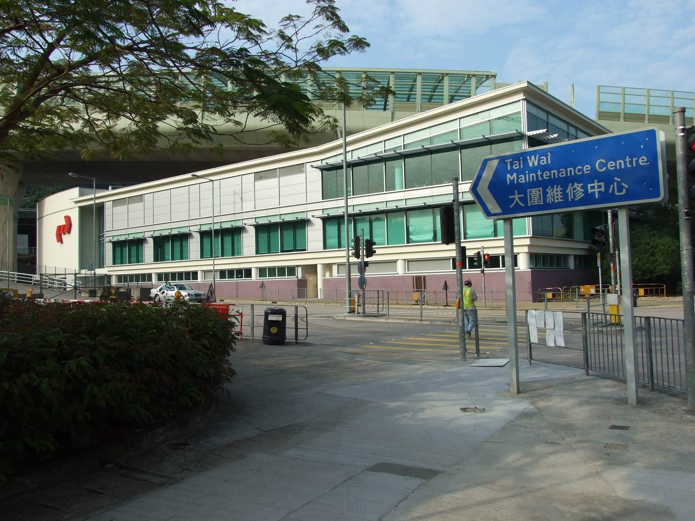 Entrance to Tai Wai depot on the KCR